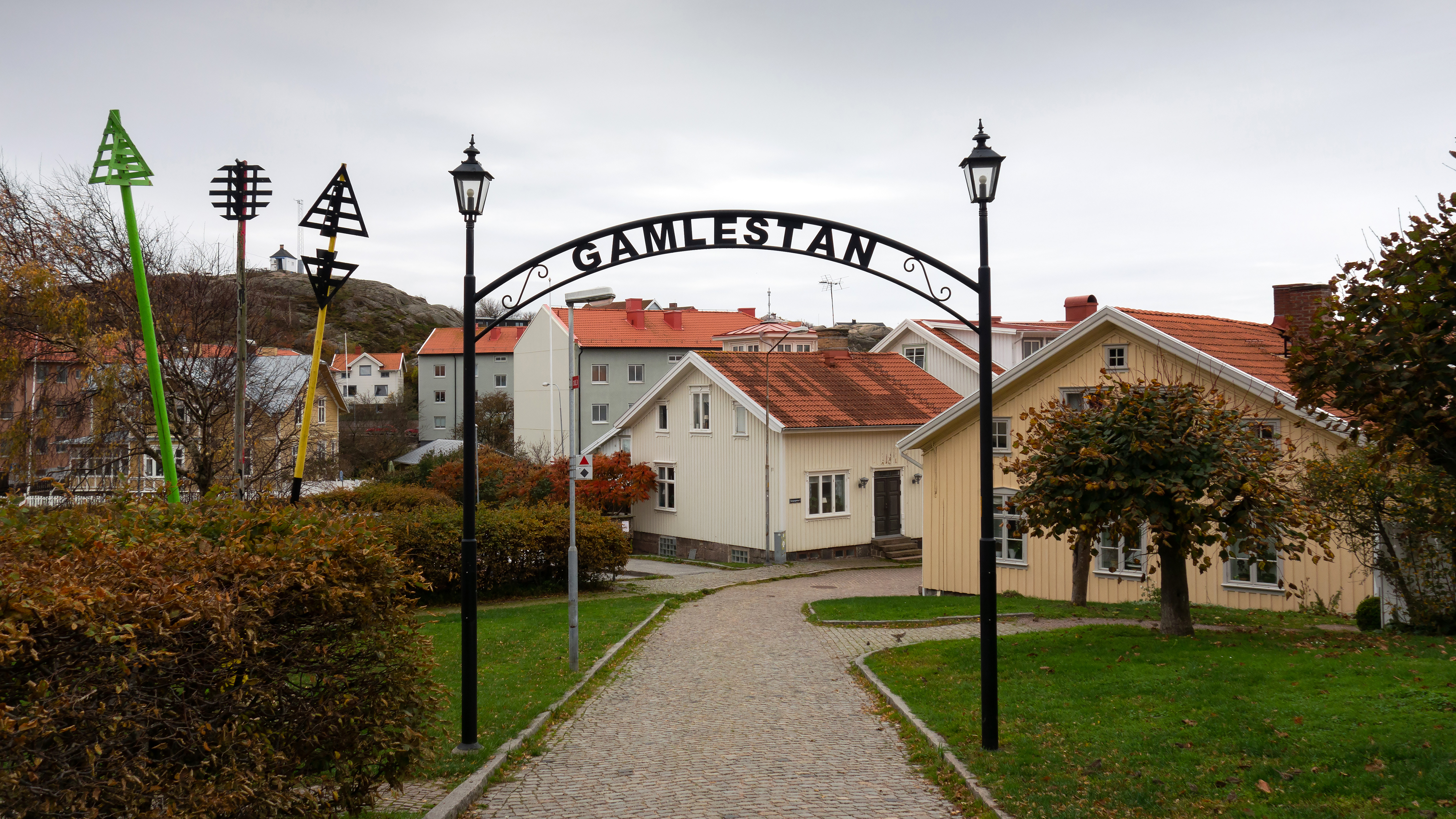 Entrance to Gamlestan (The Old Town) a part of north Lysekil right by the North Harbor, originally where the fishermen lived now a chic area for summer residents.